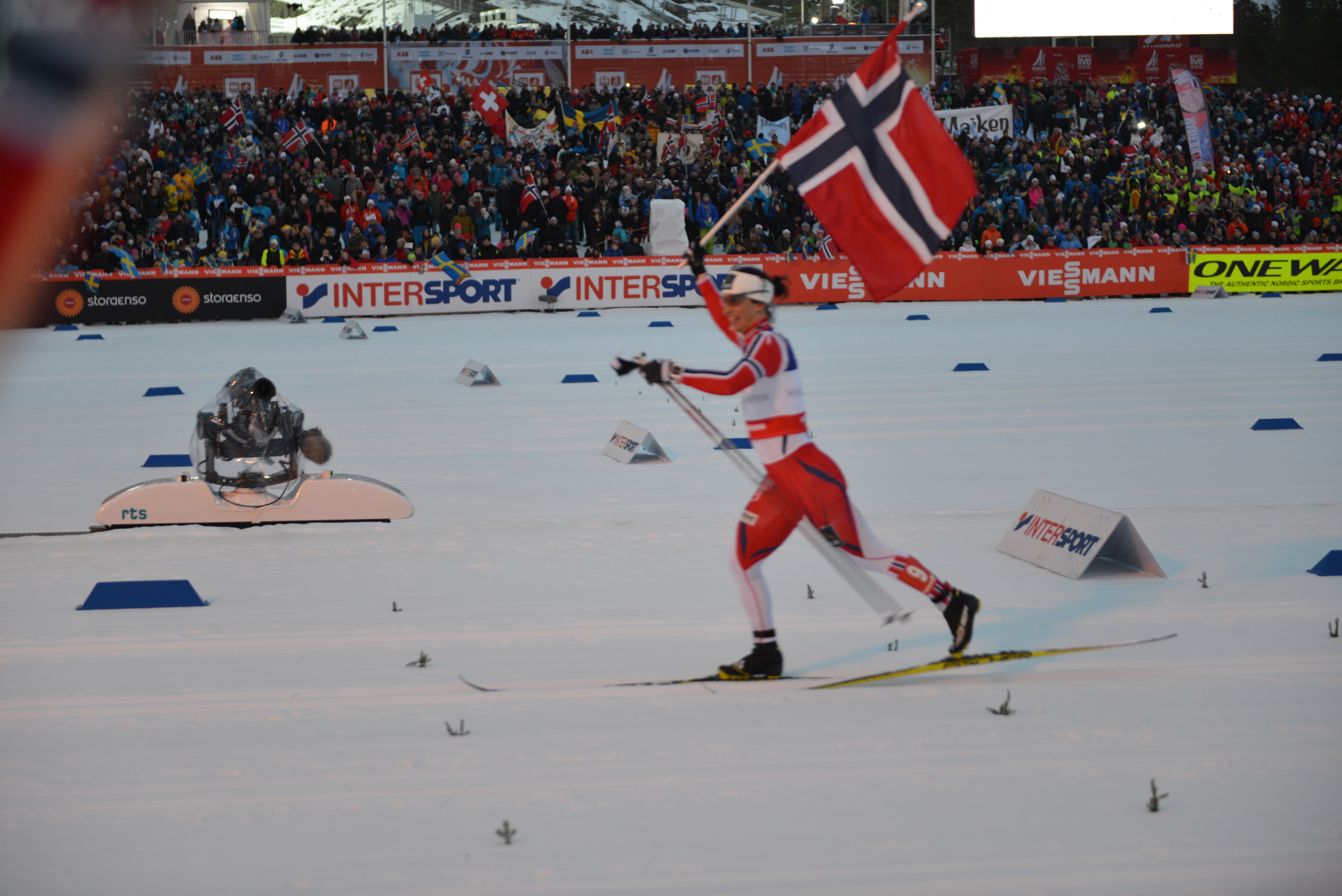 Cross-country sprint final at the FIS Nordic World Ski Championships 2015 in Falun